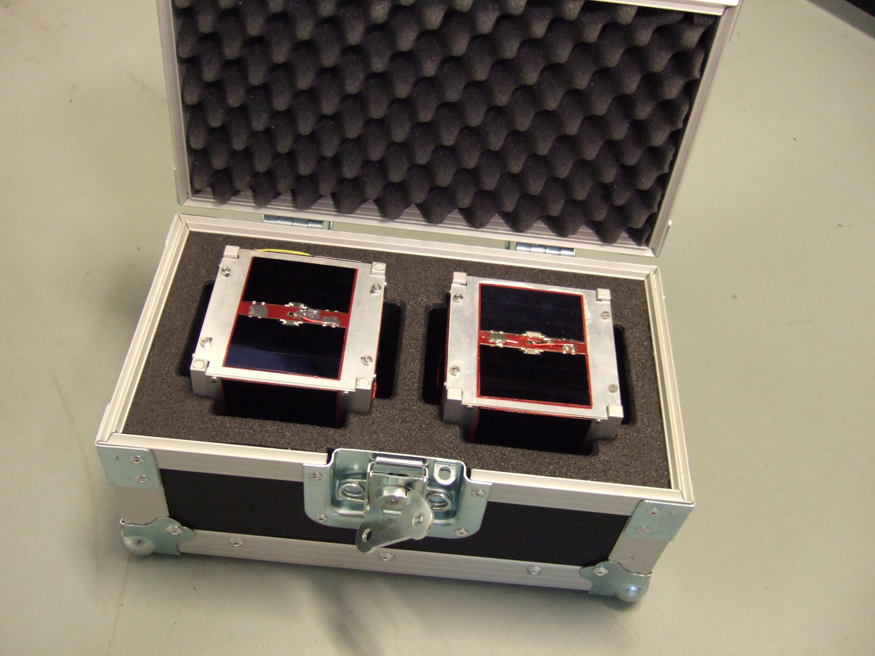 AAUSAT-II in a box